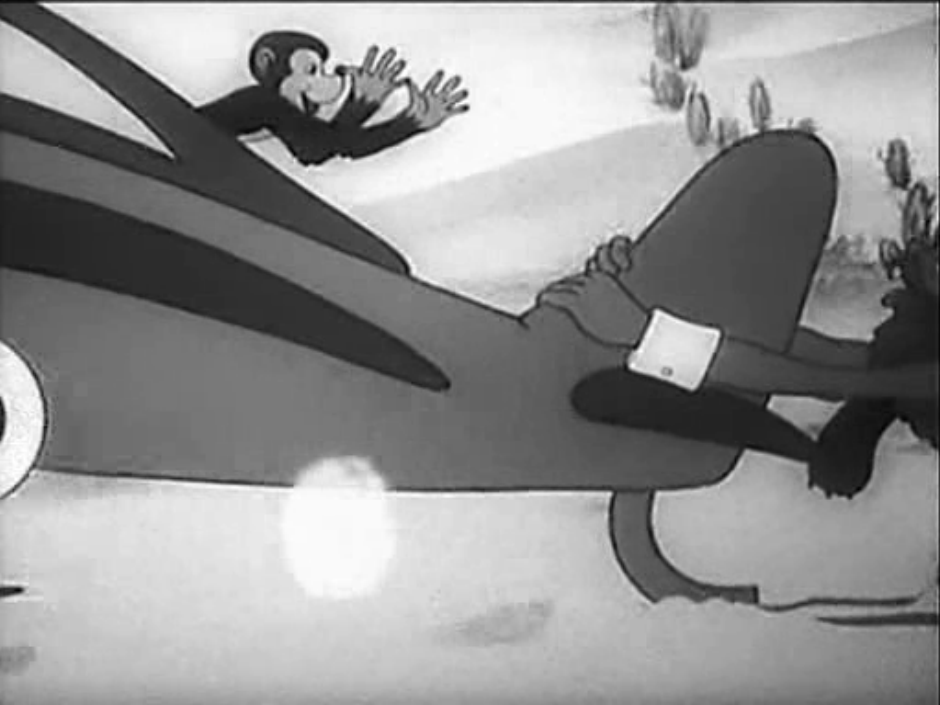 "Barmaley" soviet cartoon:- Screenshot showing heroic socialist monkey thumbing its nose at evil capitalist pirate.